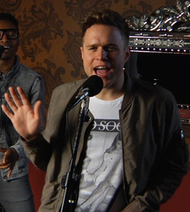 British singer-songwriter Olly Murs performs live on Walmart Soundcheck Risers and dishes on fame, One Direction, girls, and the making of his third album, "Right Place Right Time."